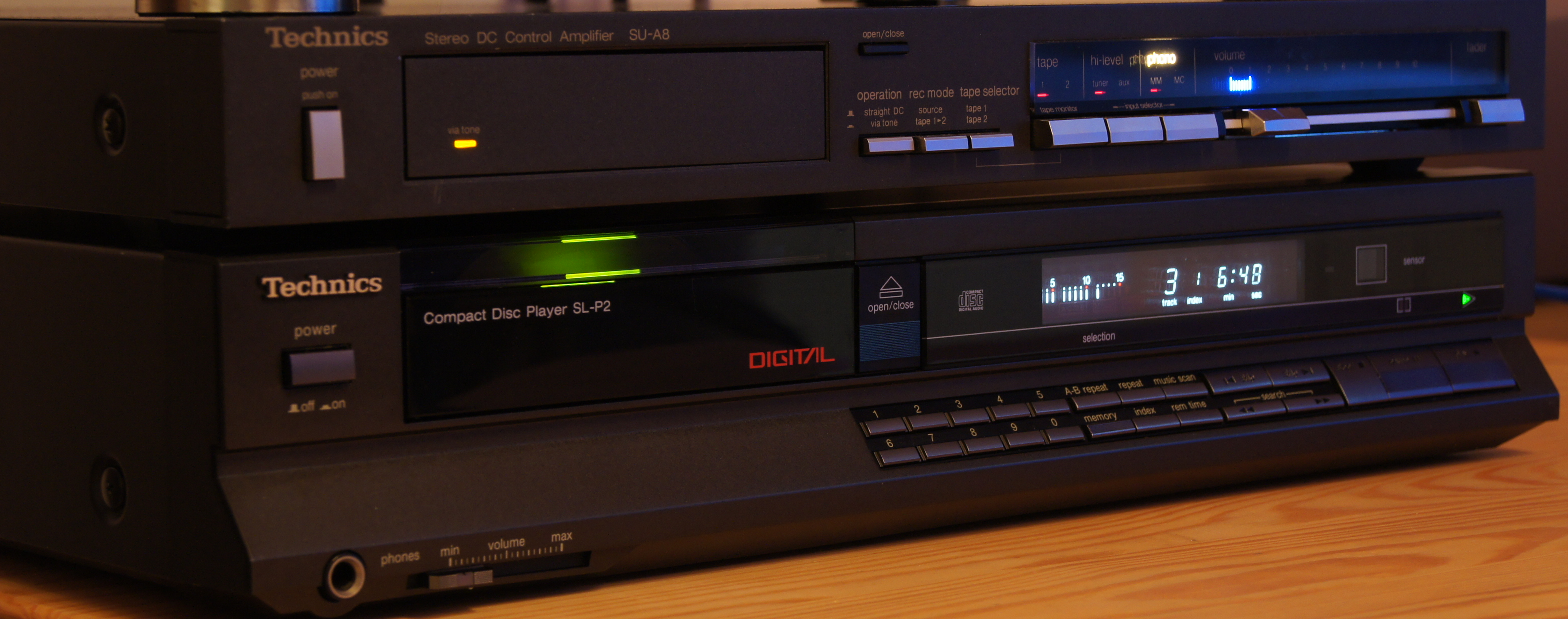 Technics ST-S6 tuner, SU-A8 preamplifier and SL-P2 CD player